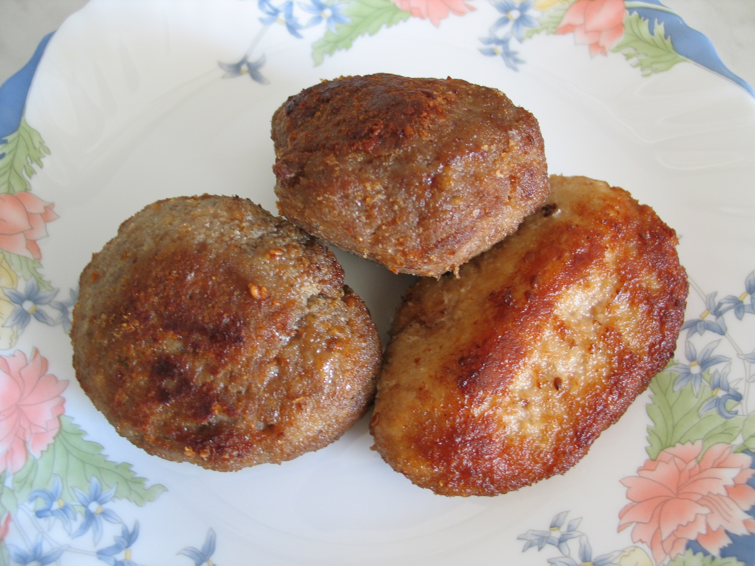 cutlets